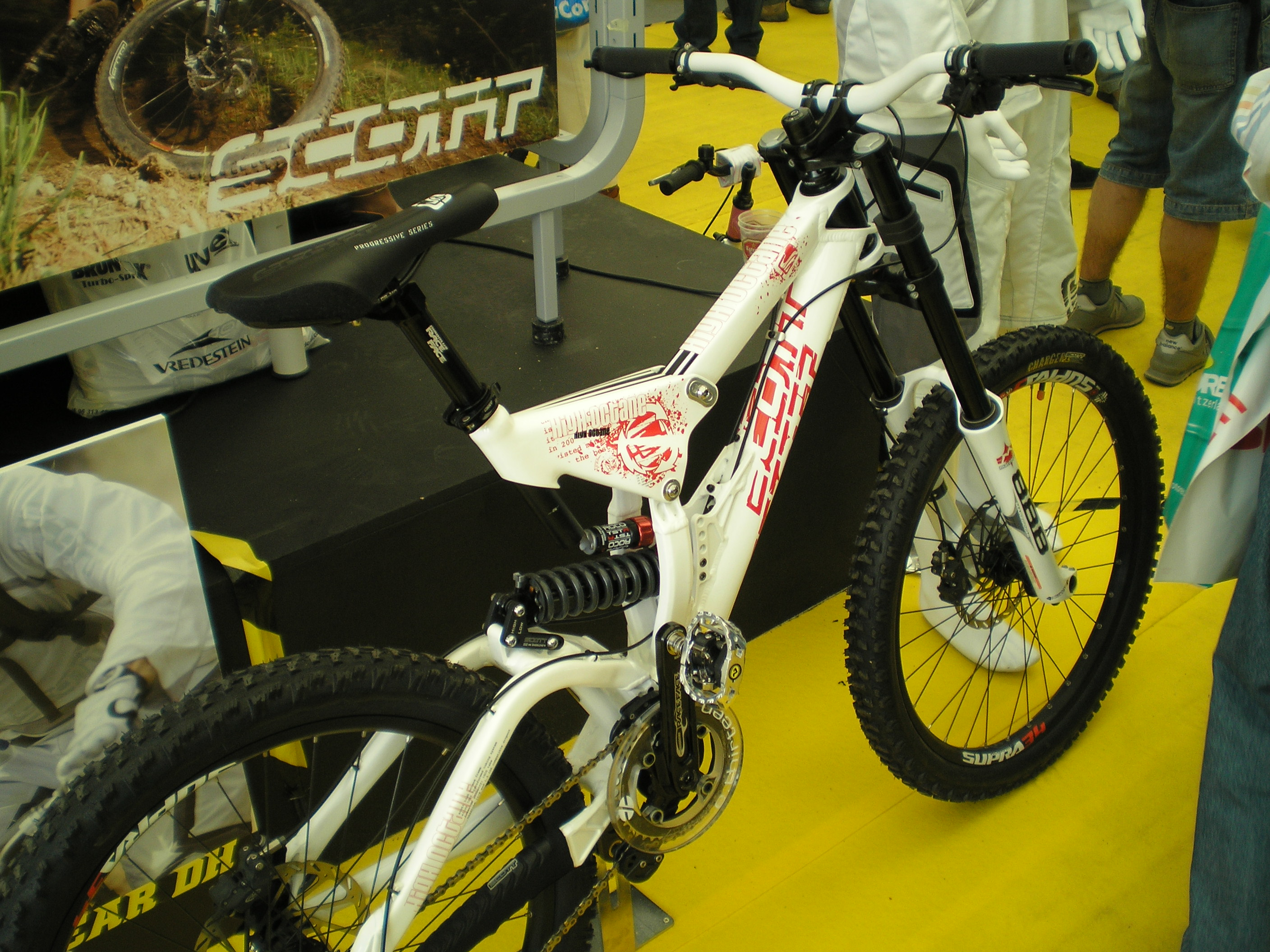 Scott High Octane